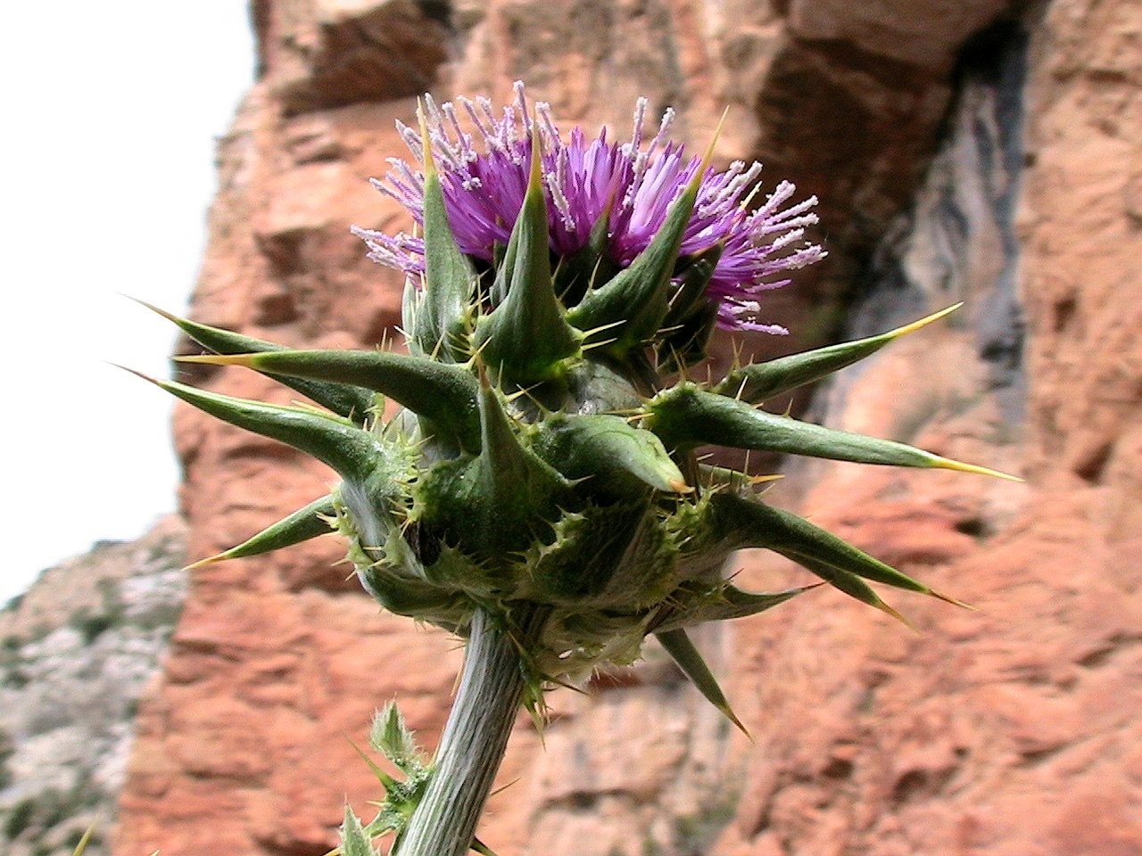 Silybum marianum. In Camarasa (Noguera- Catalunya). To 830 m. altitude